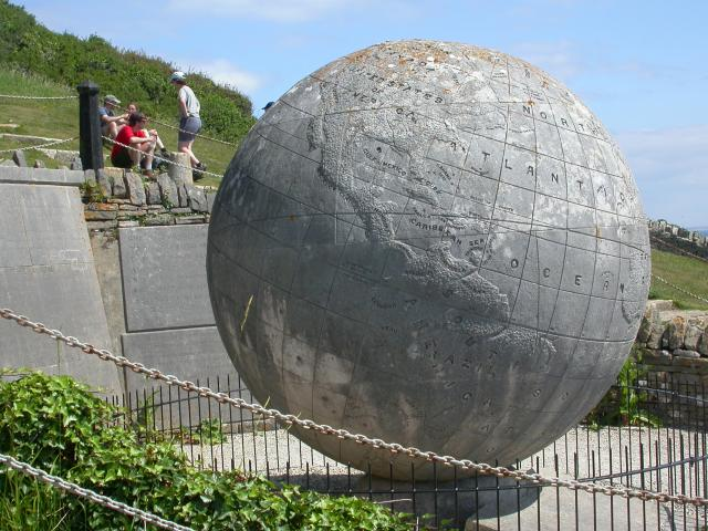 Stone Globe. Stone Globe at Durlston Head